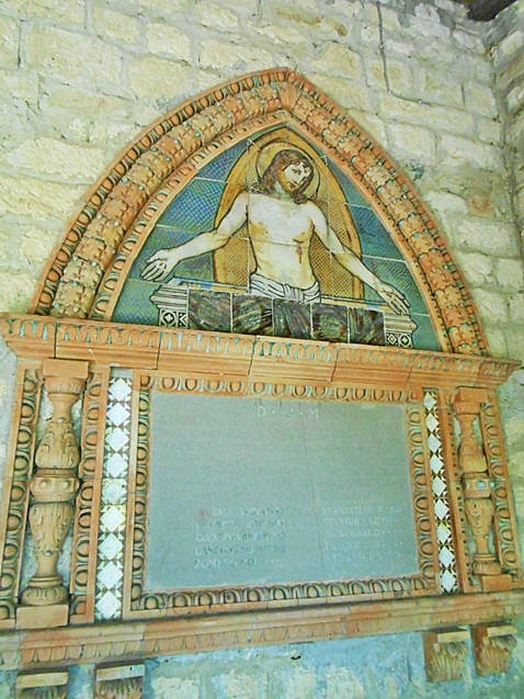 Christ rising from the grave-ceramic Chini